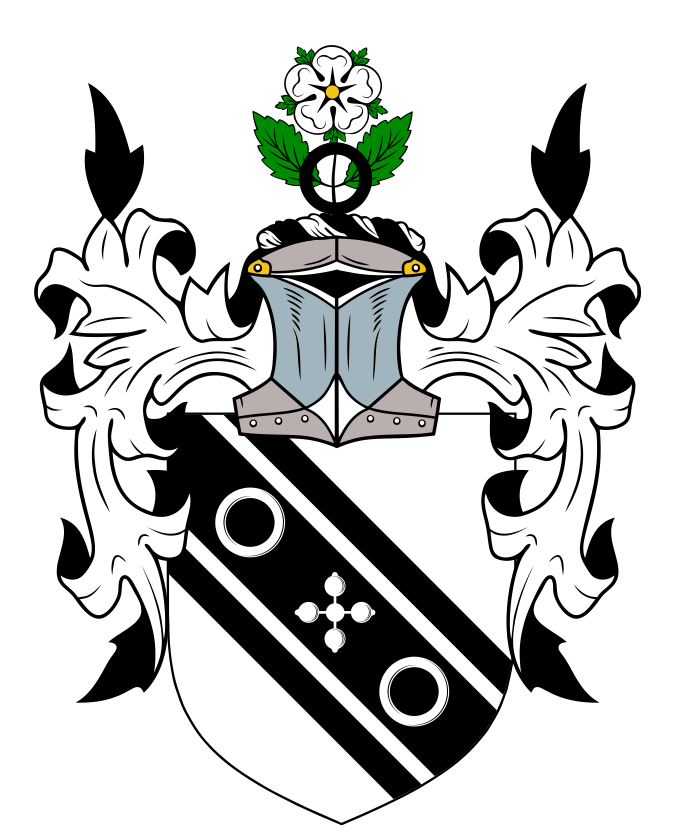 The heraldic achievement of William Ames of Braintree, Massachusetts as described on page 12 of "Crozier's General Armory" (1904).